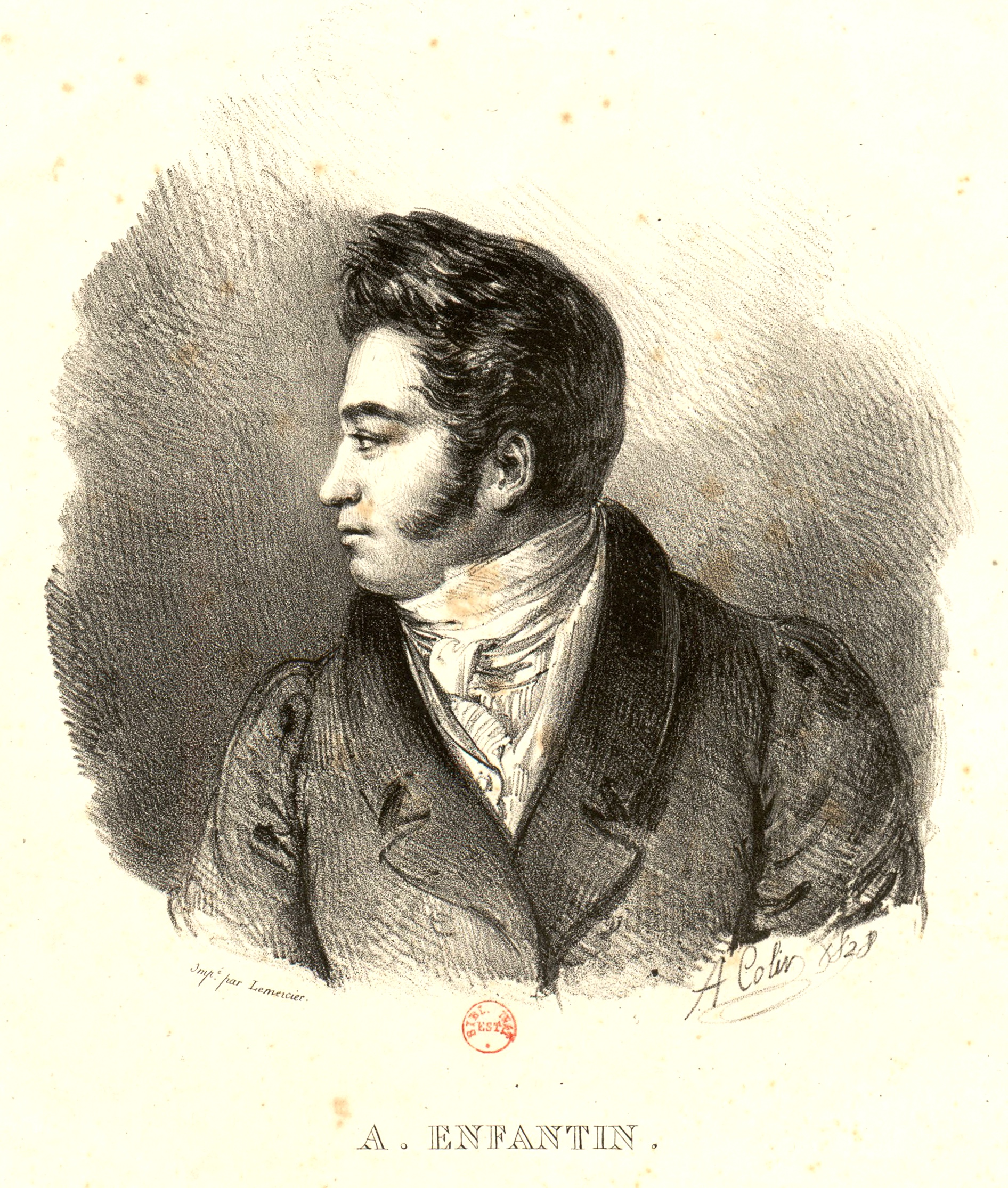 Prosper Enfantin (1796–1864), French social reformer, one of the founders of Saint-Simonianism wearing the Saint-Simonian uniform. Imprimé par Lemercier